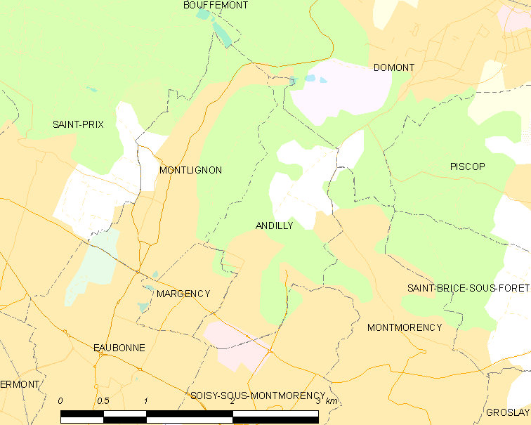 Map of French municipality Andilly